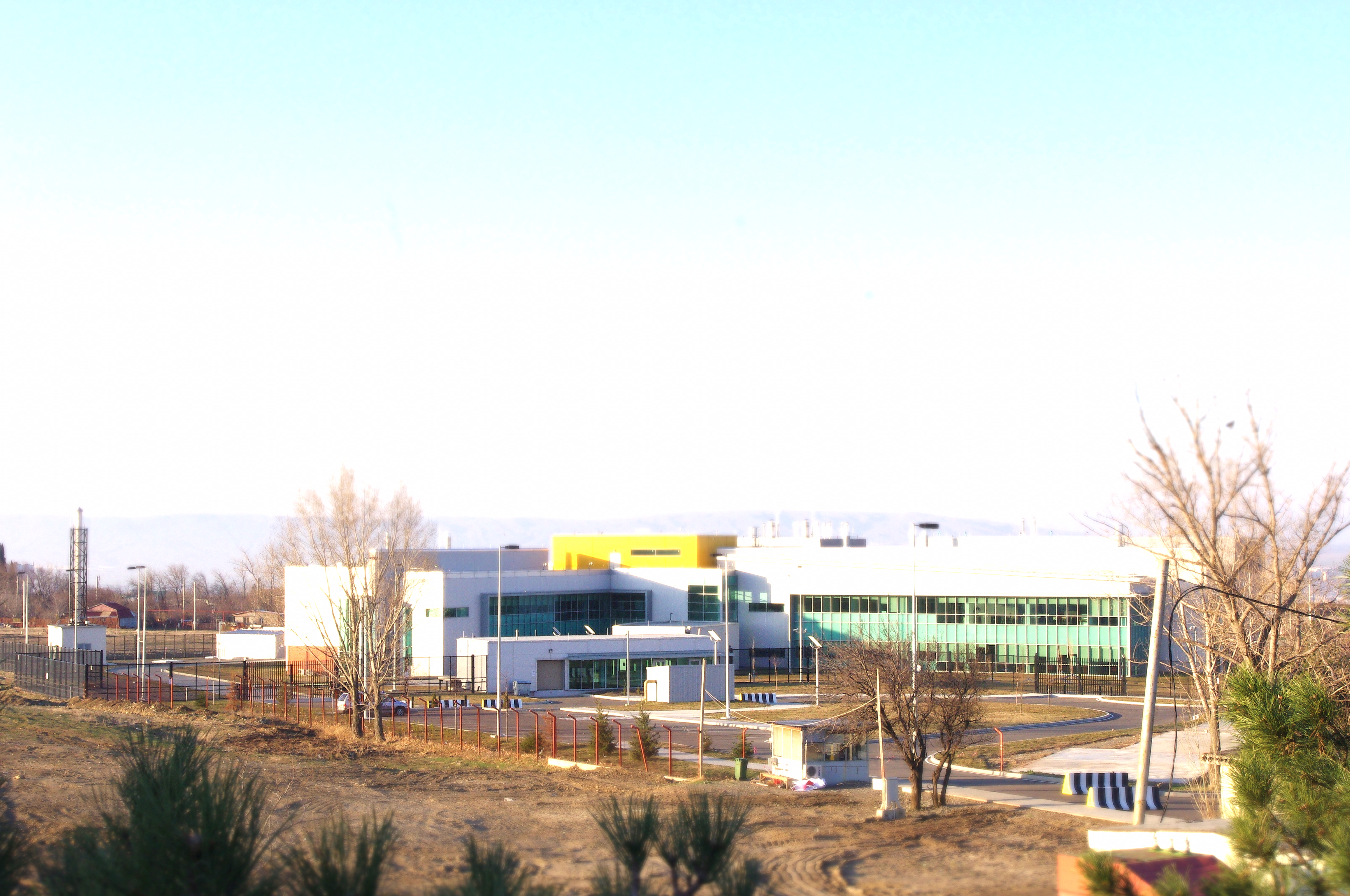 Central Public Health Reference Laboratory in Tbilisi, Georgia, opened on 18 March 2011 and was built by the United States Defense Threat Reduction Agency, a part of the U.S. Department of Defense.